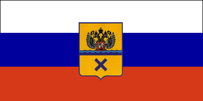 Flag of Orenburg, Orenburg oblast, Russia